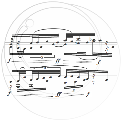 Excerpt from score of Svitlana Azarova's "Mover of the Earth, Stopper of the Sun" depicting the Sun